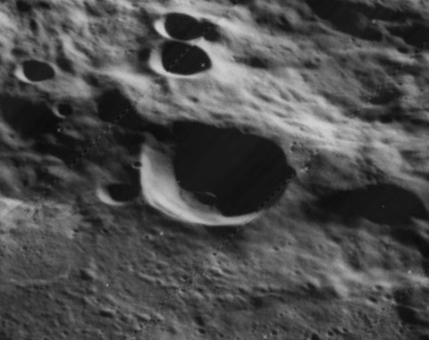 Oblique view of Kearons, on the far side of the moon, facing west.